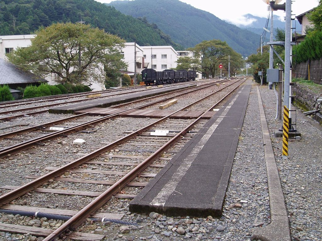 Inside of Kawane Ryogoku Sta.